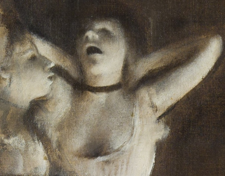 Répétition d'un ballet sur la scène (detail)